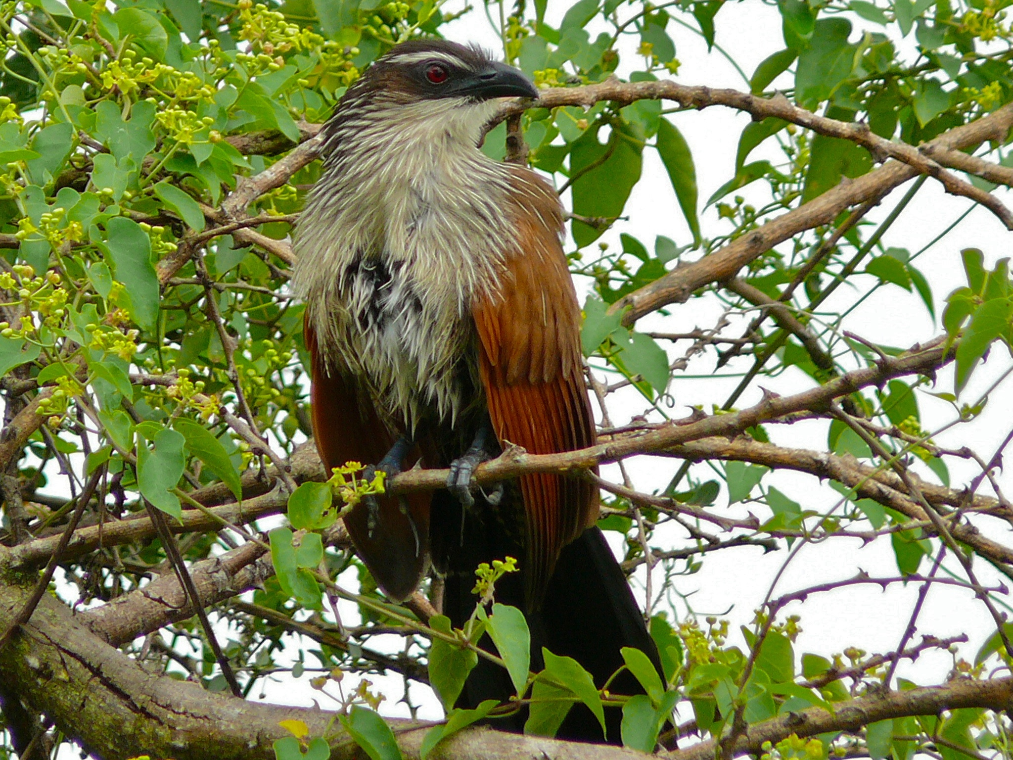 Murchison's Falls NP, UGANDA